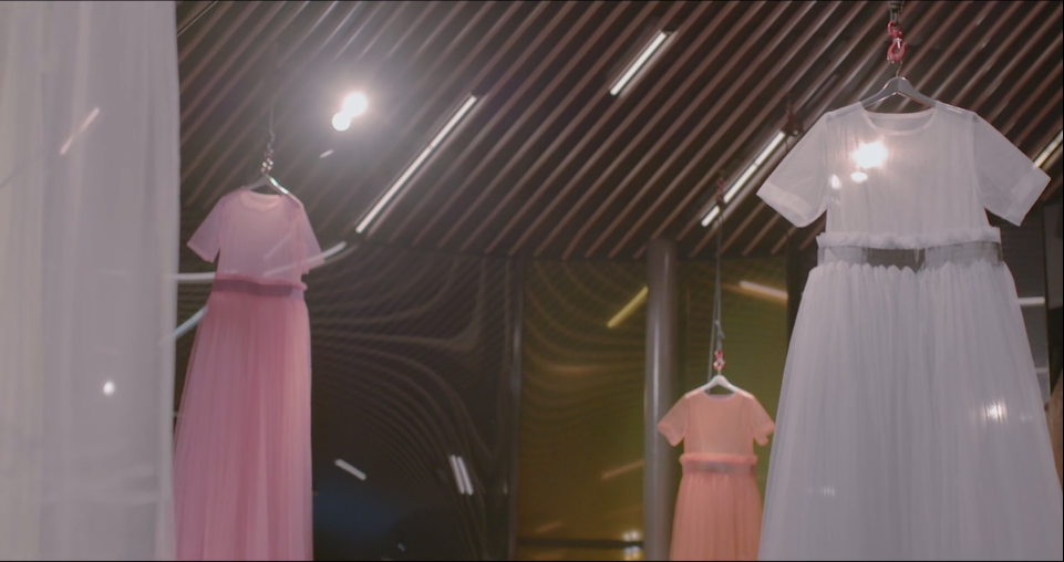 Tulle dresses on exhibit at Molly Goddard's 'What I Like' installation from video at (01:07)